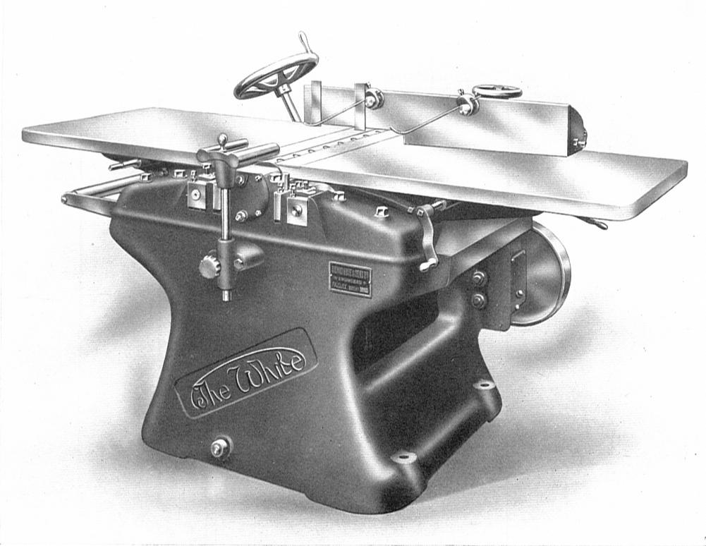 Fig. 8 A machine for production-grade work at surface planing and thicknessing. Cutter head is of large diameter, balanced, uses high-speed steel cutters and runs at 9,000 rpm. The thicknessing feed rate is variable through a gearbox, to 25, 40 or 60 feet per minute, adjustable when moving. The tables are 6 feet long overall.